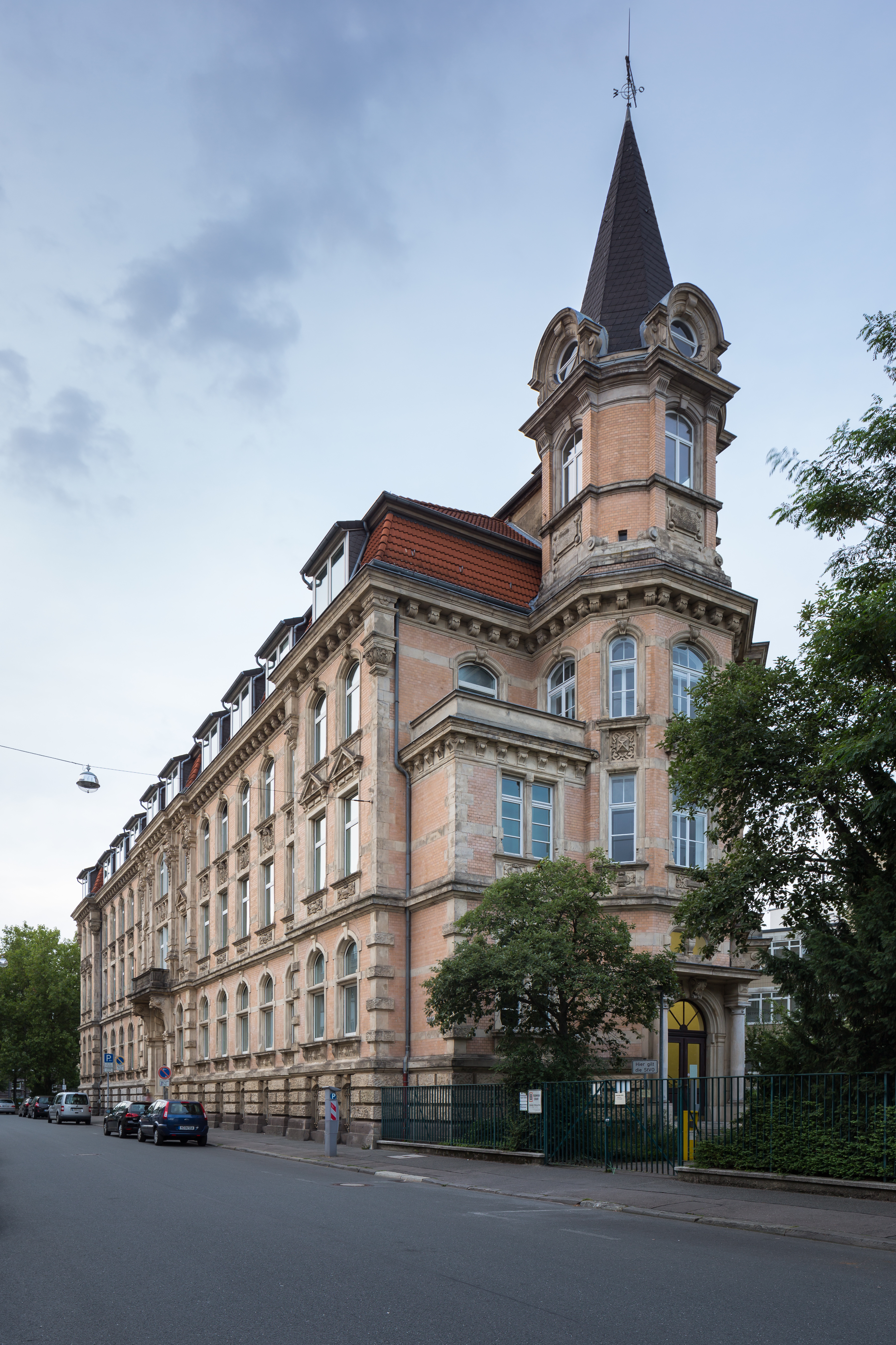 Building of the former insurance instiution "Alters- und Invaliditaets-Versicherungsanstalt" located at Maschstrasse no. 25 in Suedstadt quarter of Hannover, Germany.